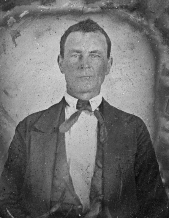 Ambrotype of Champ Ferguson